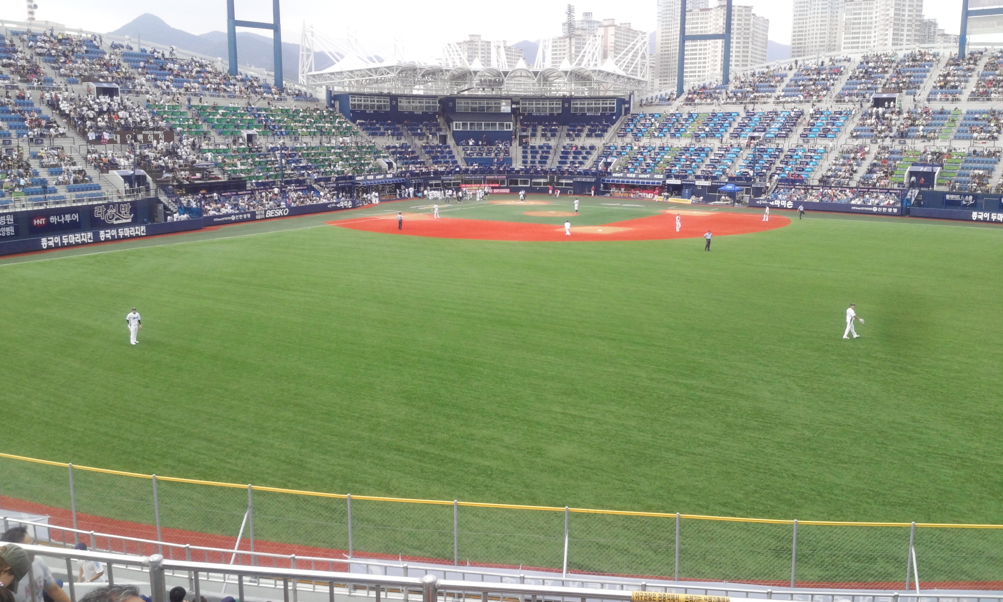 This picture was taken in Masan Baseball Stadium during the game between NC Dinos and SK Wyverns.